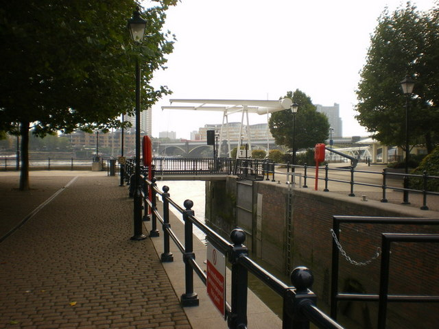 Lock, entrance into Chelsea Harbour Lock between the River Thames and Chelsea Harbour